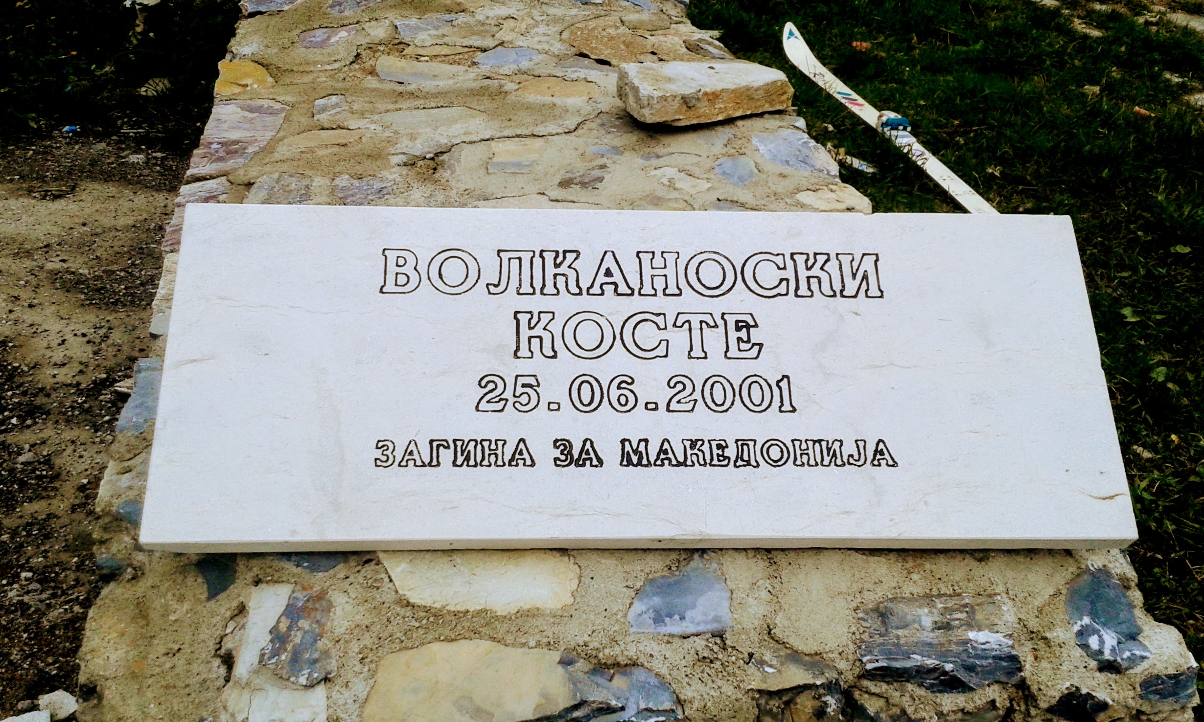 Part of our project Veloexpeditions in 2016